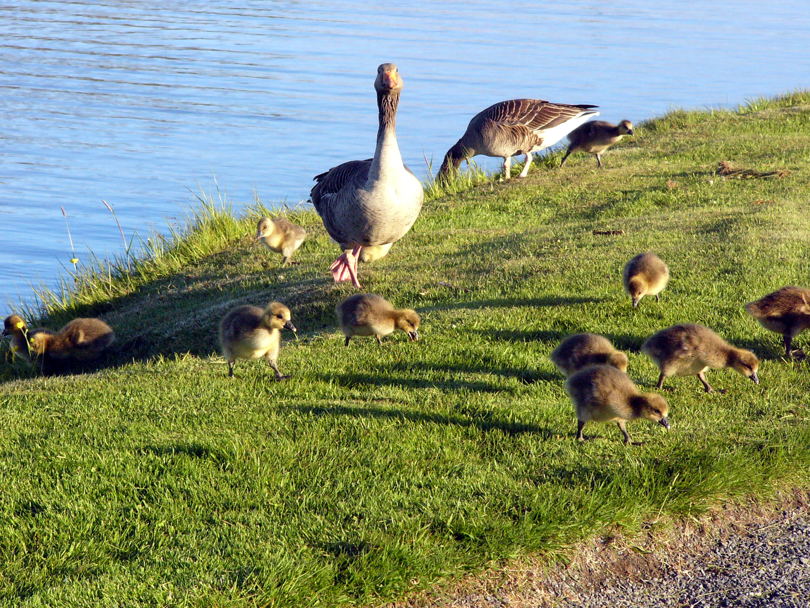 Goose with goslings (Anser anser) in Rexkjavík (Tjörnin).